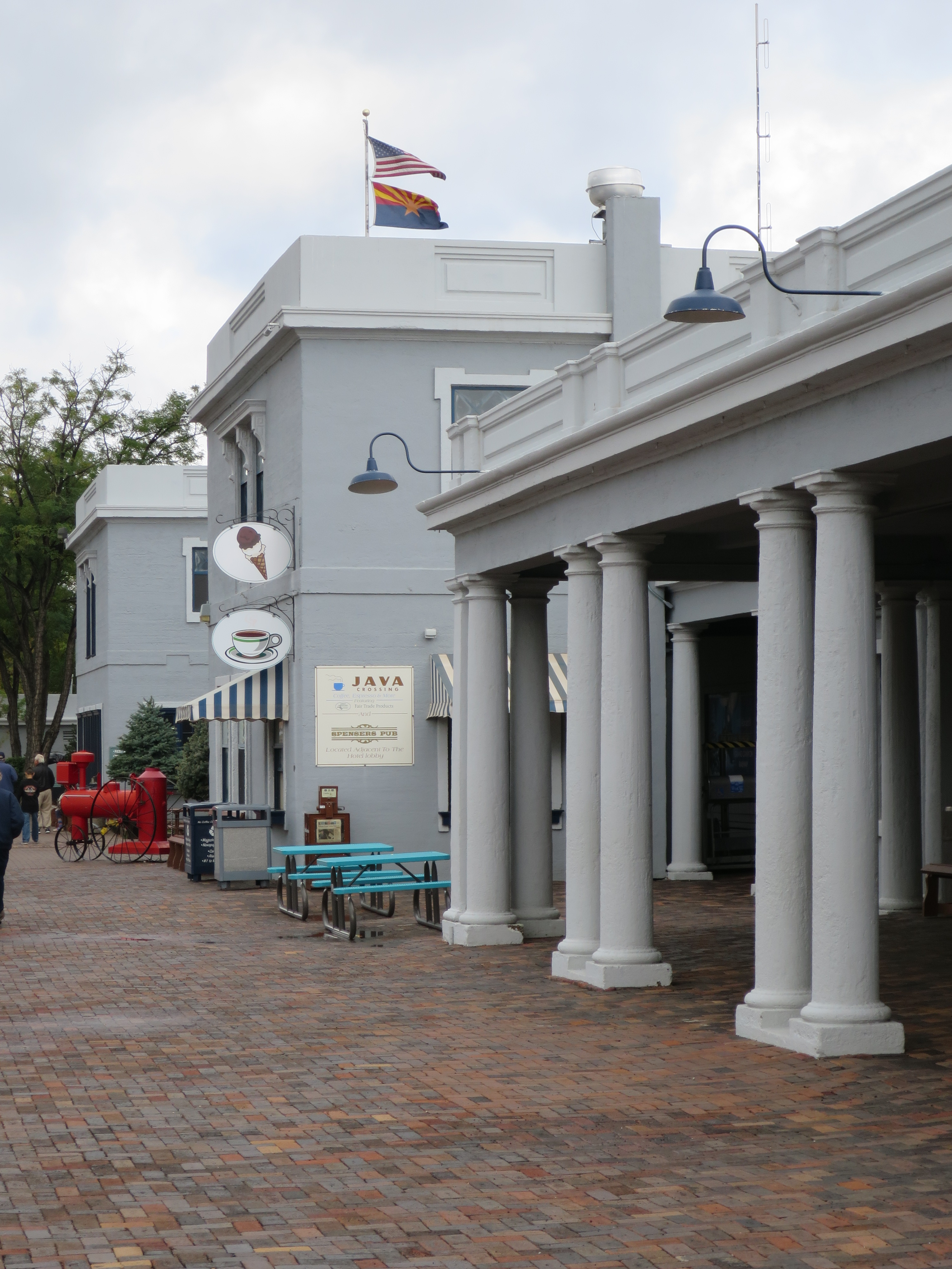 Grand Canyon Railway Station — in Williams, Arizona.